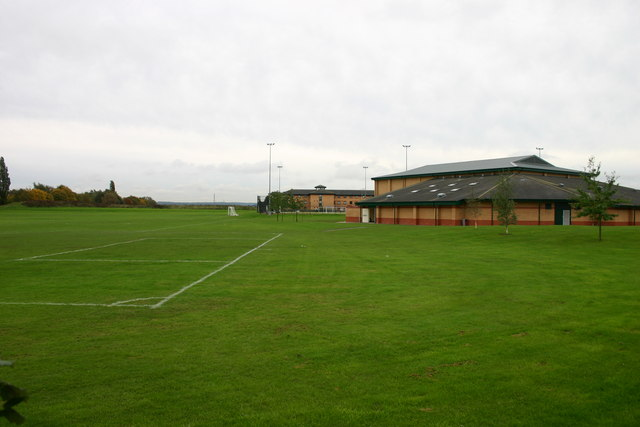 Sports Field and Sports Centre, Stafford Sports Fields and Hall next to Staffordshire University on the Weston Road (A518) Stafford. Halls of residence can be seen in the background.